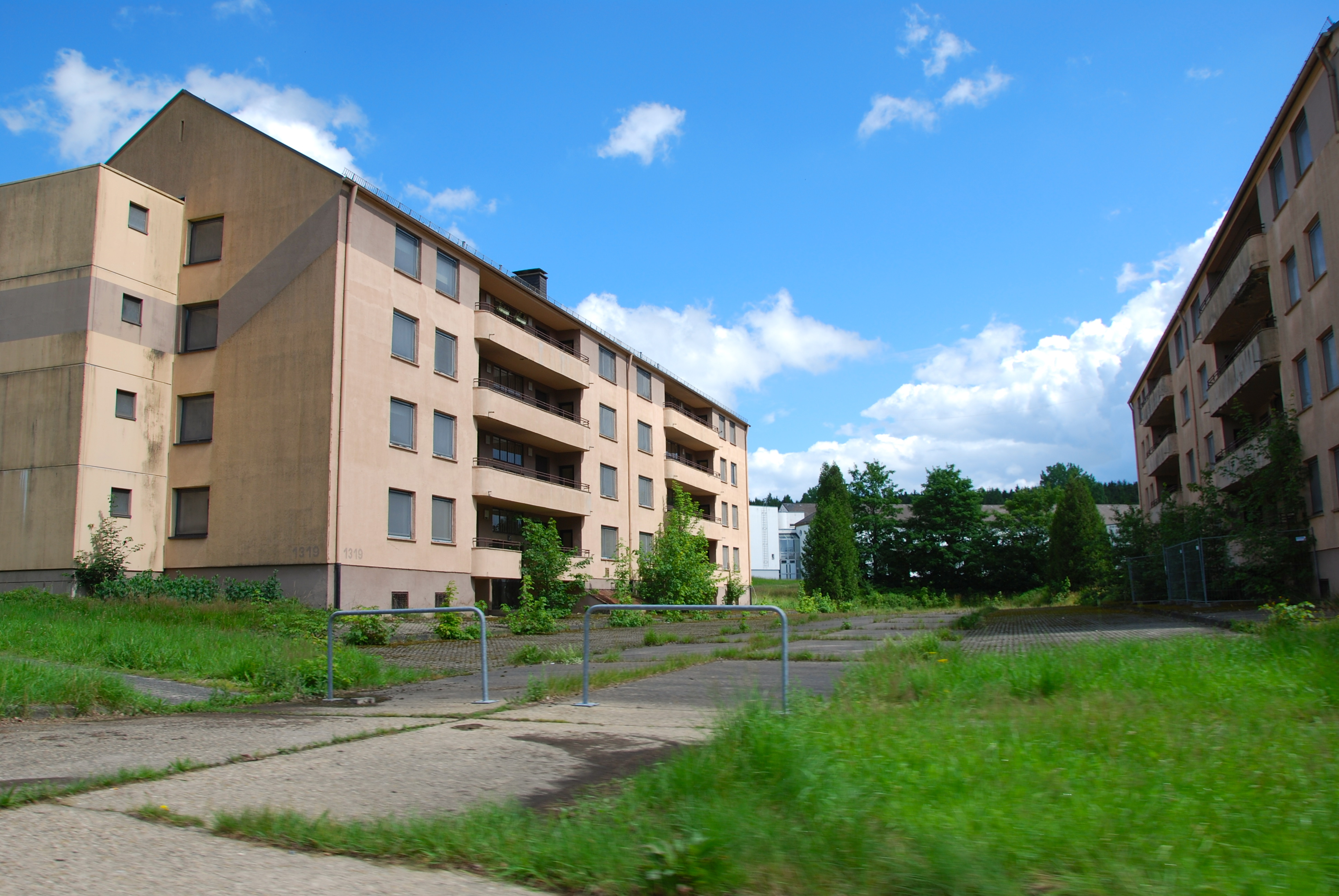 Unoccupied barracks of the former Hahn Air Base (today Airport Frankfurt-Hahn). In the background a civilian usage.